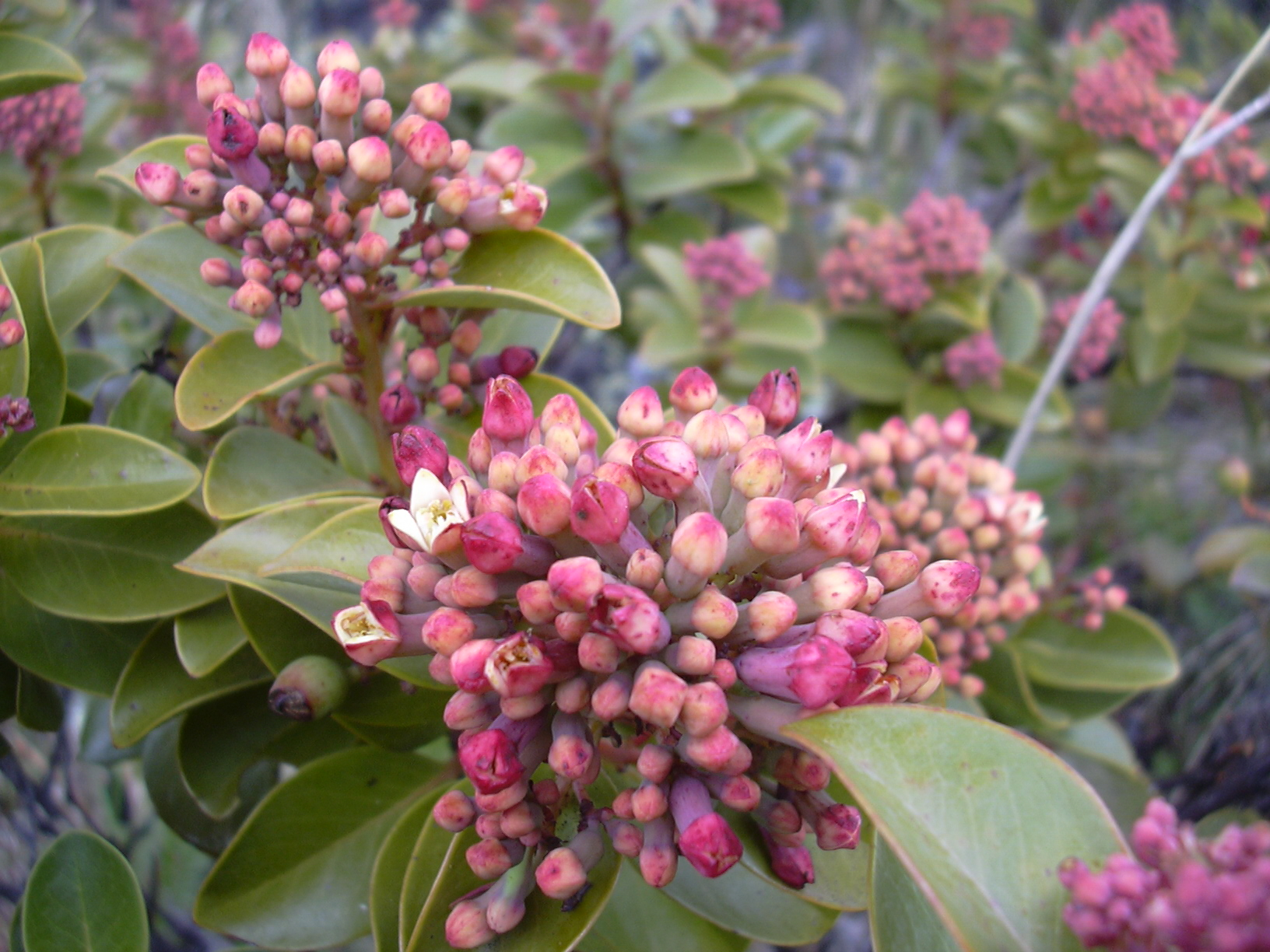 Santalum haleakalae (flower buds). Location: Maui, Puu Mamane Haleakala National Park